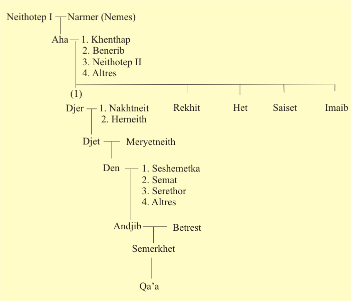 Dinasty I, genealogy